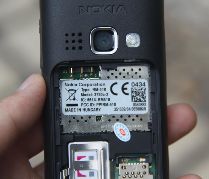 nokia phone